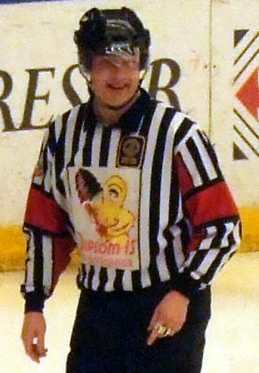 Swedish ice hockey refree Ulf Rådbjer during an Elitserien game in E.ON Arena, Timrå, Sweden